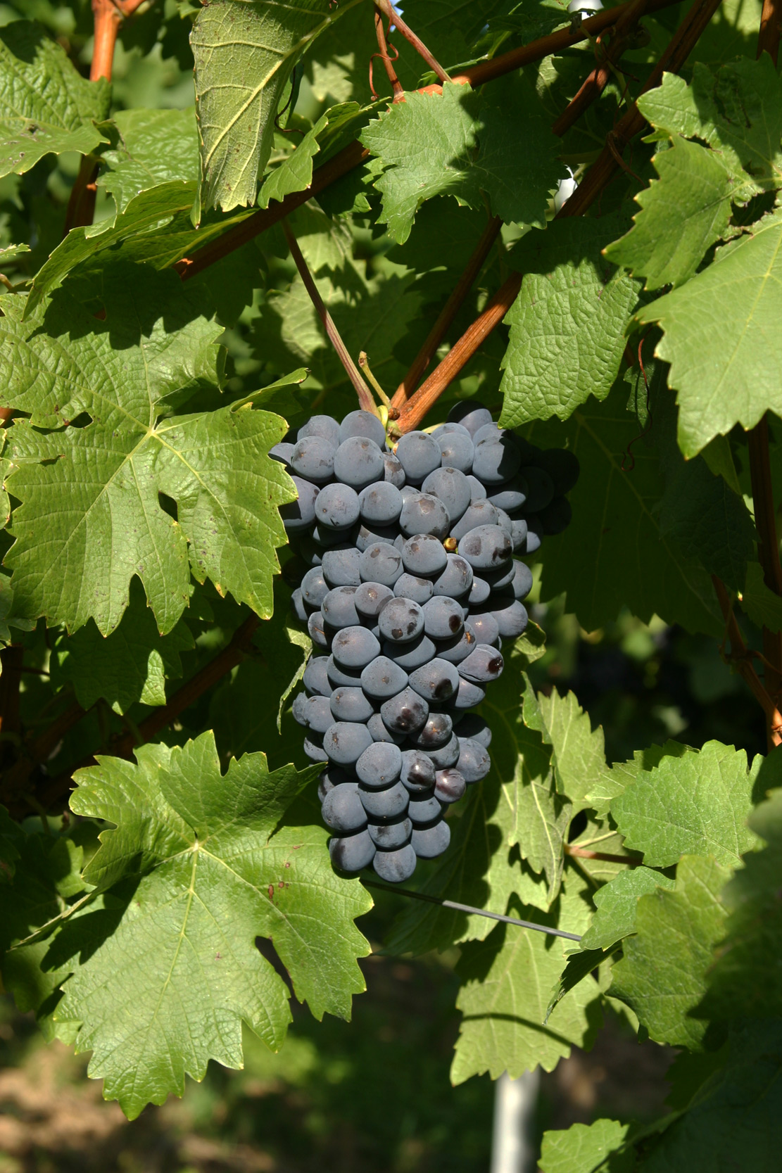 Leafs and grapes of the grape variety Helfensteiner.